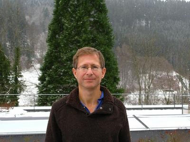 Ehud Hrushovski, Oberwolfach 2010